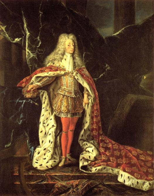 Portrait of King Frederick IV of Denmark (1671-1730) in his anointing costume